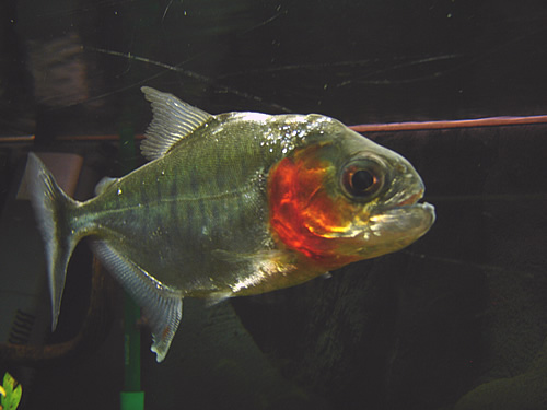 Juvenile Green Tiger Piranha (Serrasalmus manueli), 6,5 inches in length. Animal species: Piranha | Serrasalmus manueli Location/Date: Private aquarium Groningen, The Netherlands, July 2005 Taken/scanned with: Sony DSC-P73 Original size: 2240x1488 pixels